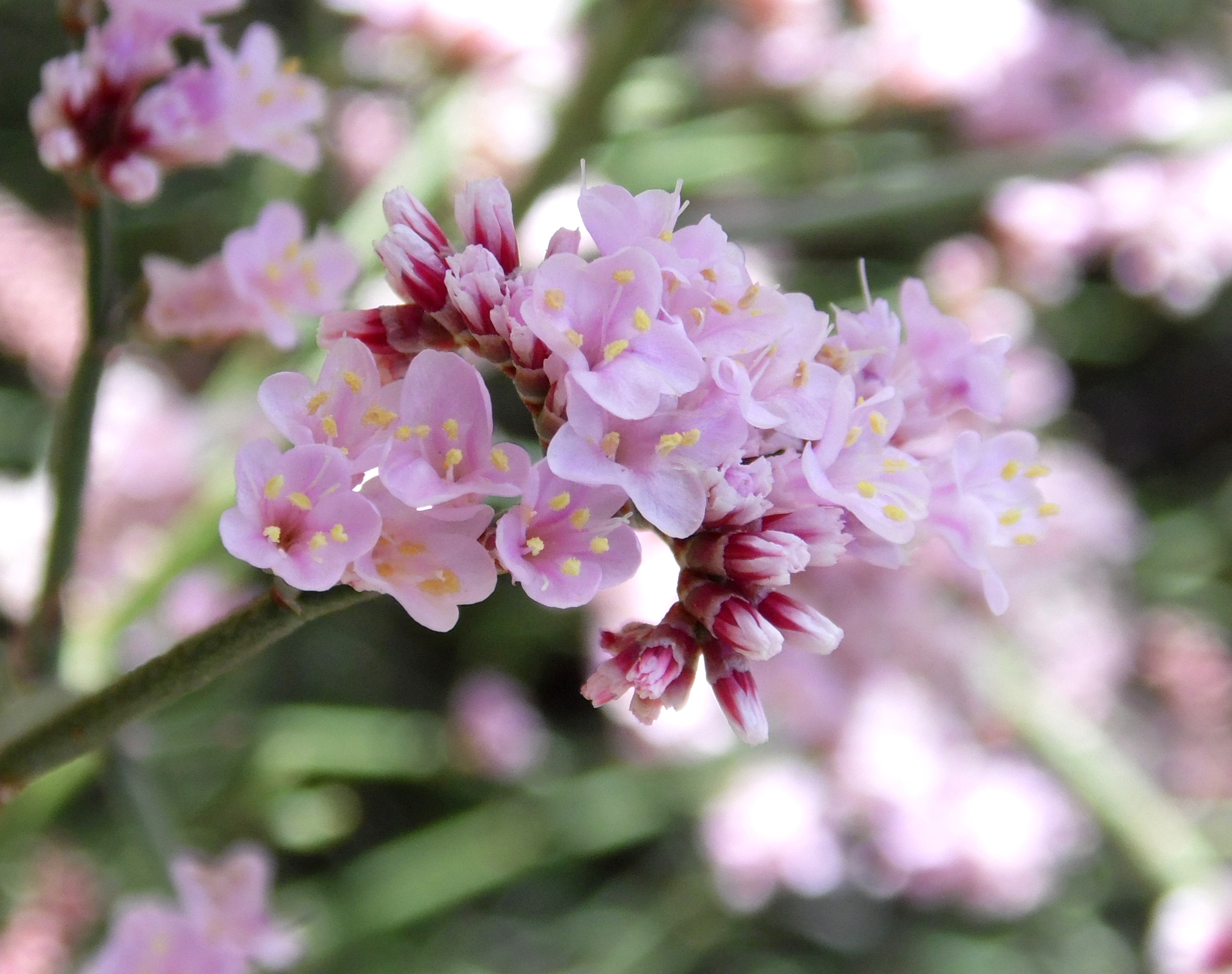 Limonium tuberculatum in Jardín Botánico Canario Viera y Clavijo